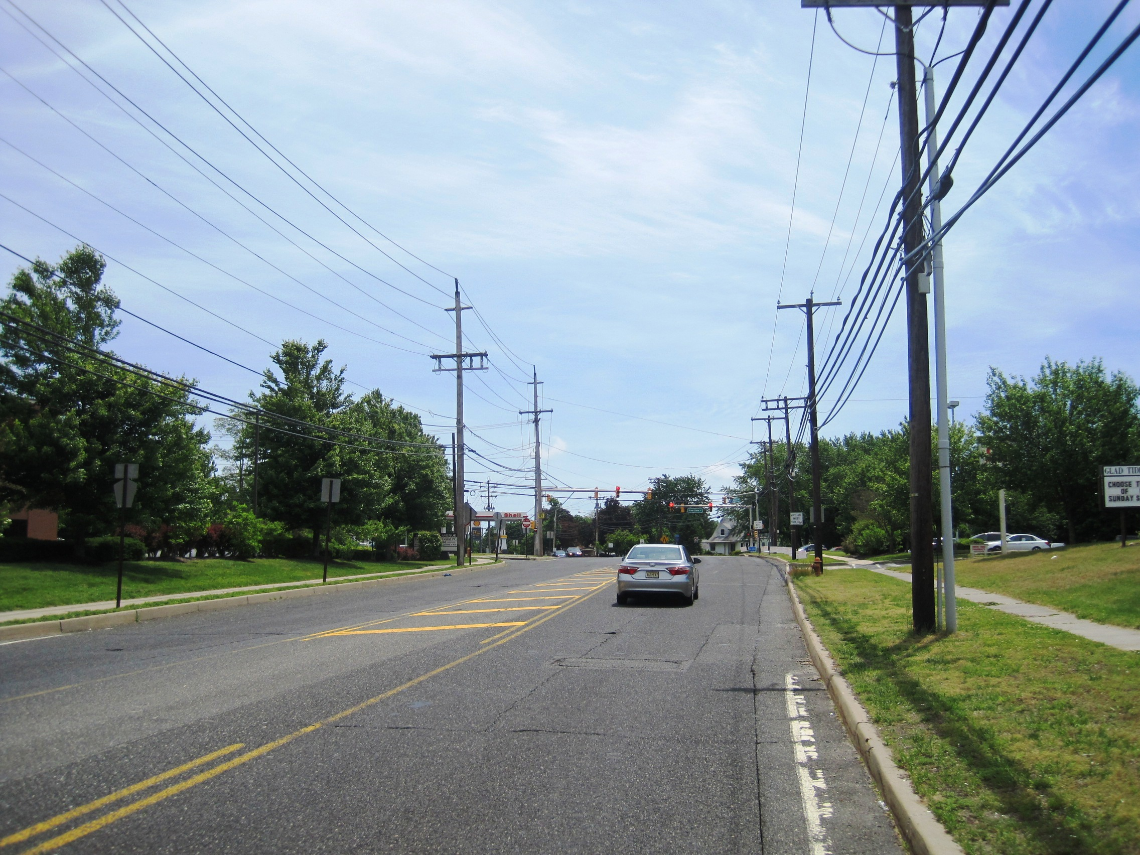 Photo showing Green Grove, New Jersey, an unincorporated community on the border of Tinton Falls, Ocean Township, and Neptune Township. Photo taken along eastbound Asbury Avenue (County Route 16) approaching Green Grove Road.